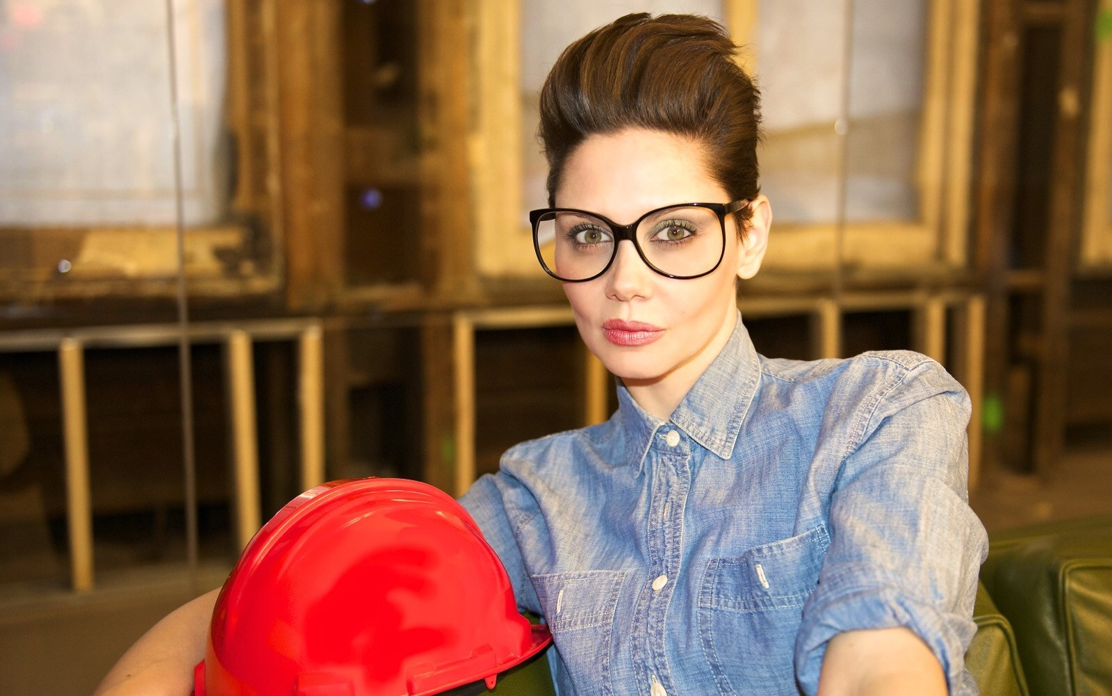 Veronica Mainetti